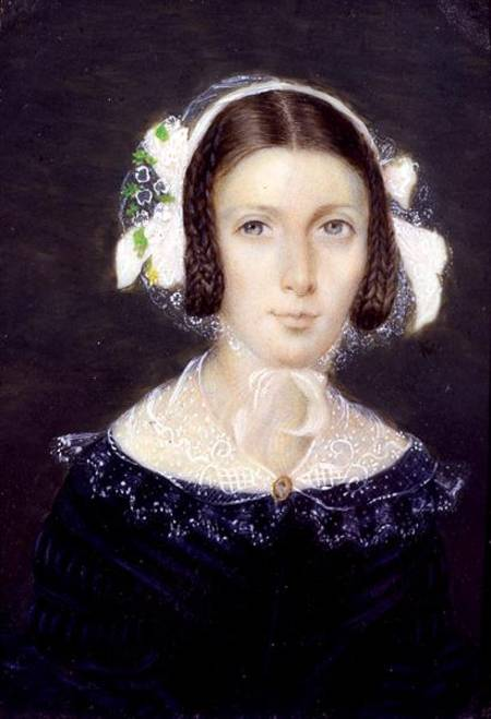 Portrait miniature of Fanny Brawne, in watercolours